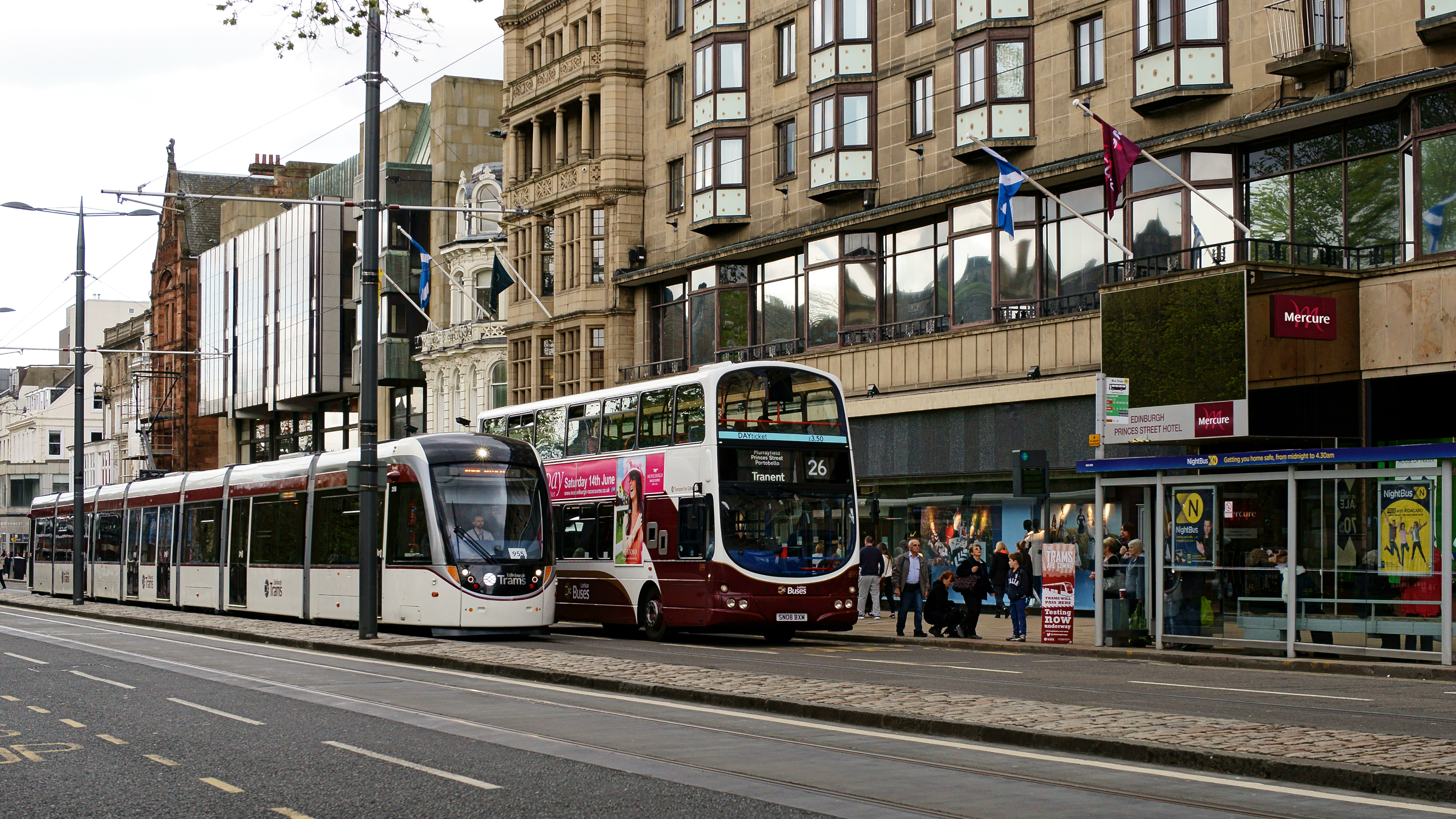 An eastbound Edinburgh Trams tram & Lothian Buses bus in Princes Street, near the Scott Monument. See File:Edinburgh Trams tram & Lothian Buses bus, Princes Street, 24 April 2014 crop.jpg for full details.